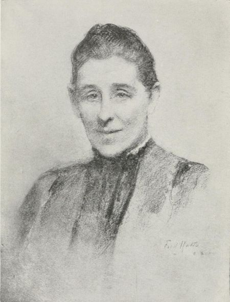 Mary Louis Armitt by Frederic Yates from her 1912 Grasmere book